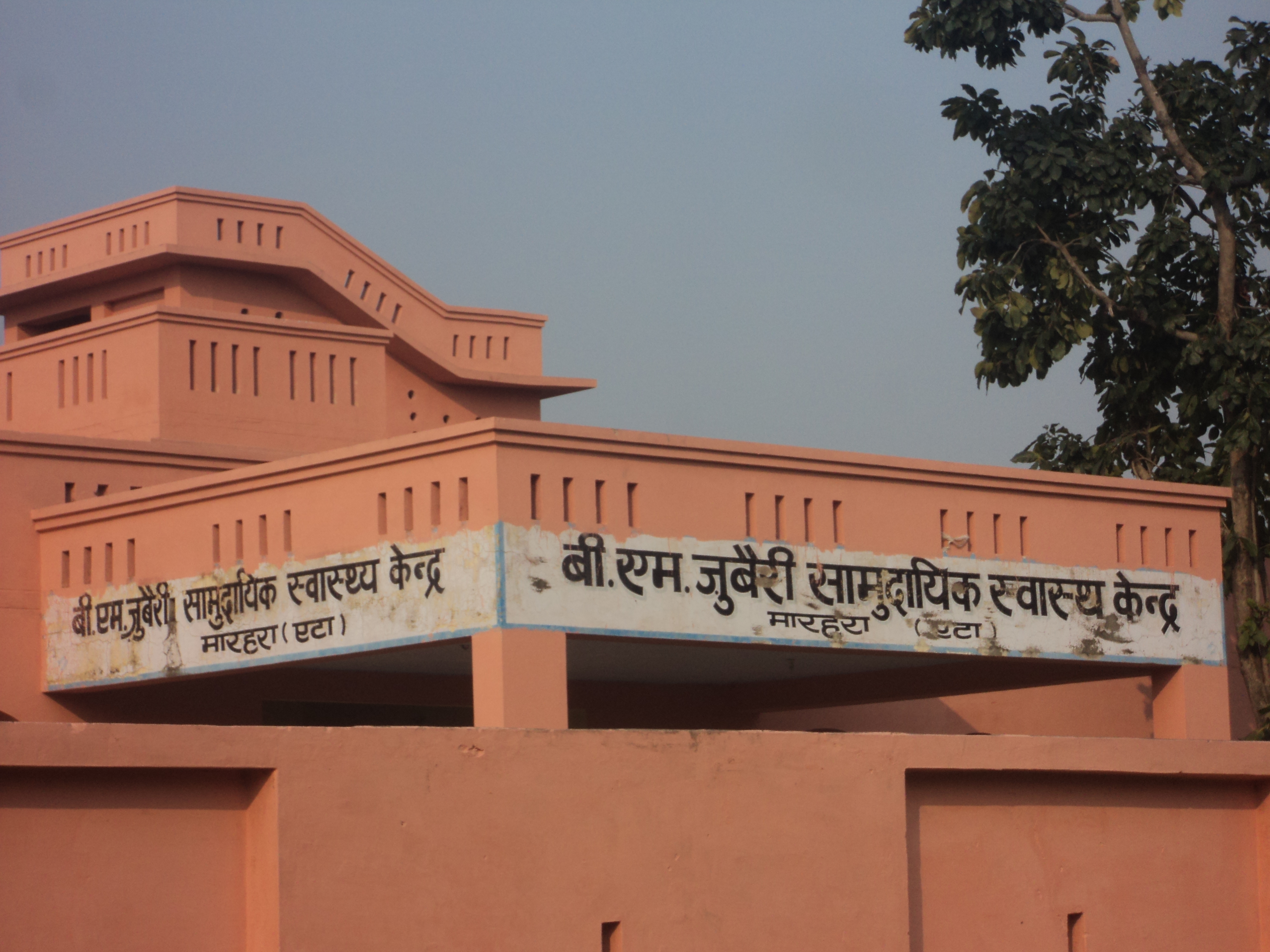 B.M Zuberi Hospital in Marehra Sharif